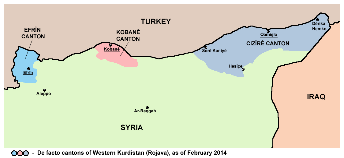 Map showing de facto cantons of Rojava (Western Kurdistan) in February 2014.